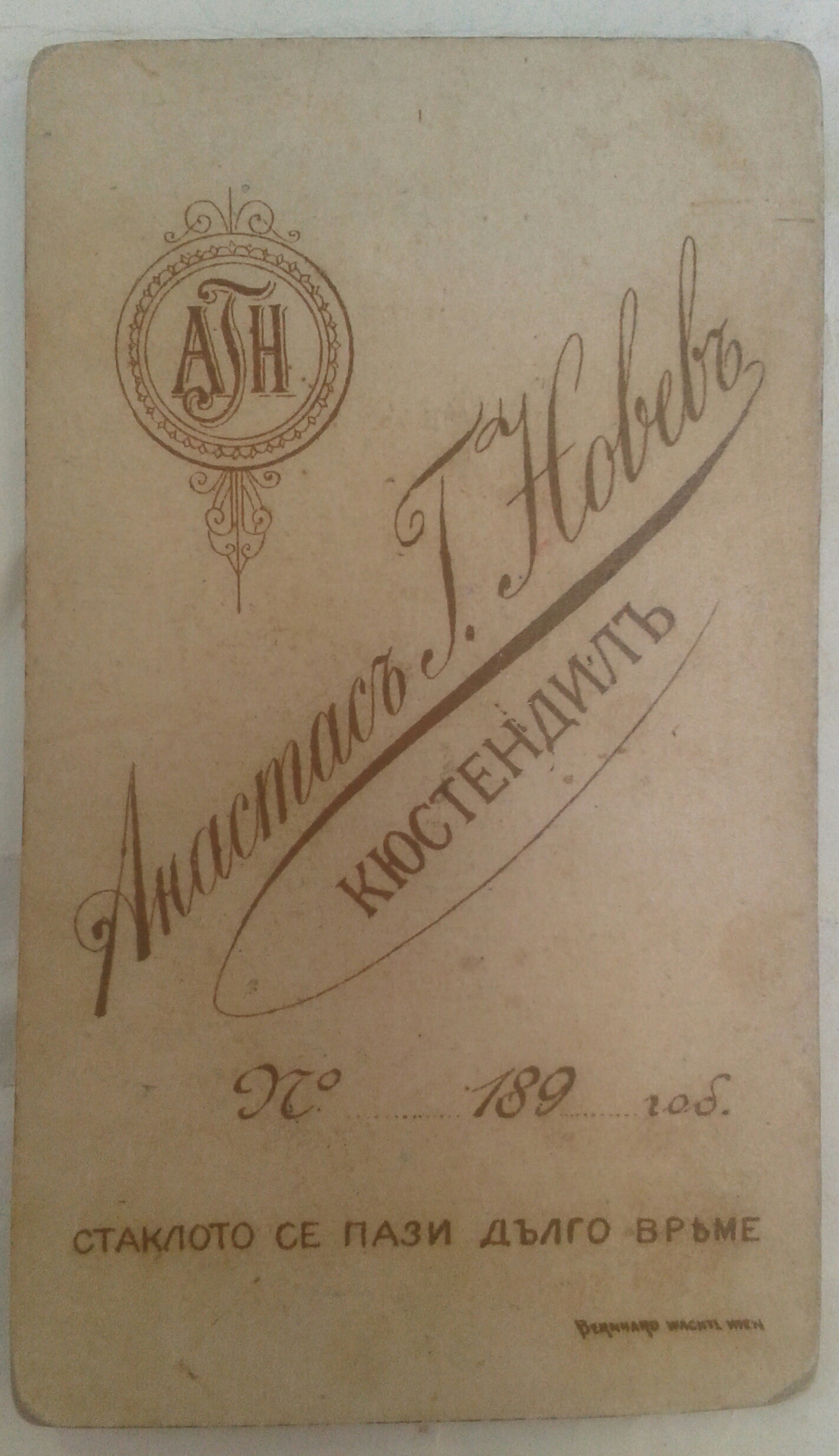 Anastas Novev Photo Studio